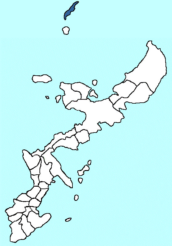 The location of Iheya Village in Okinawa.